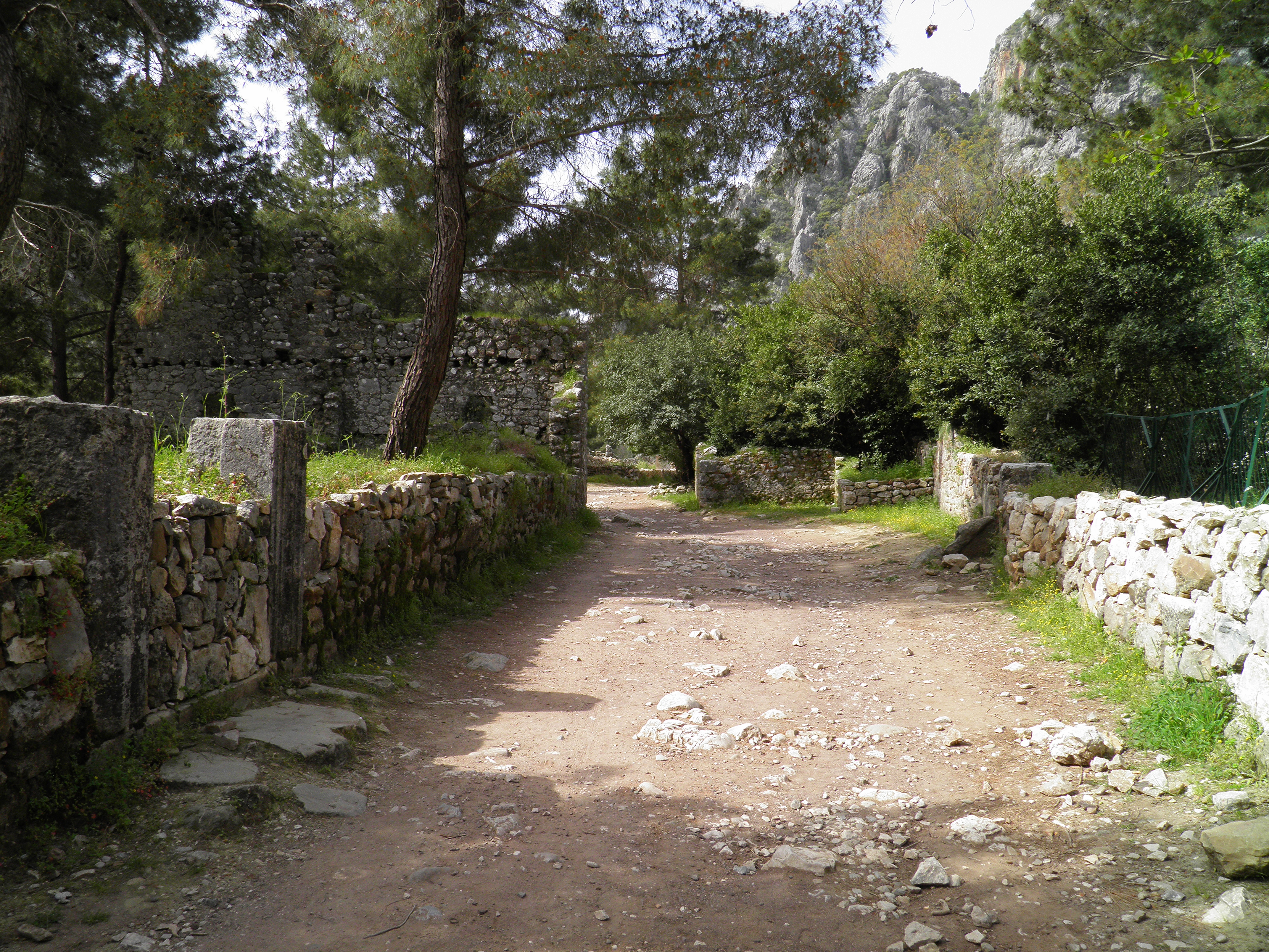 Olympos, Lycia, Turkey